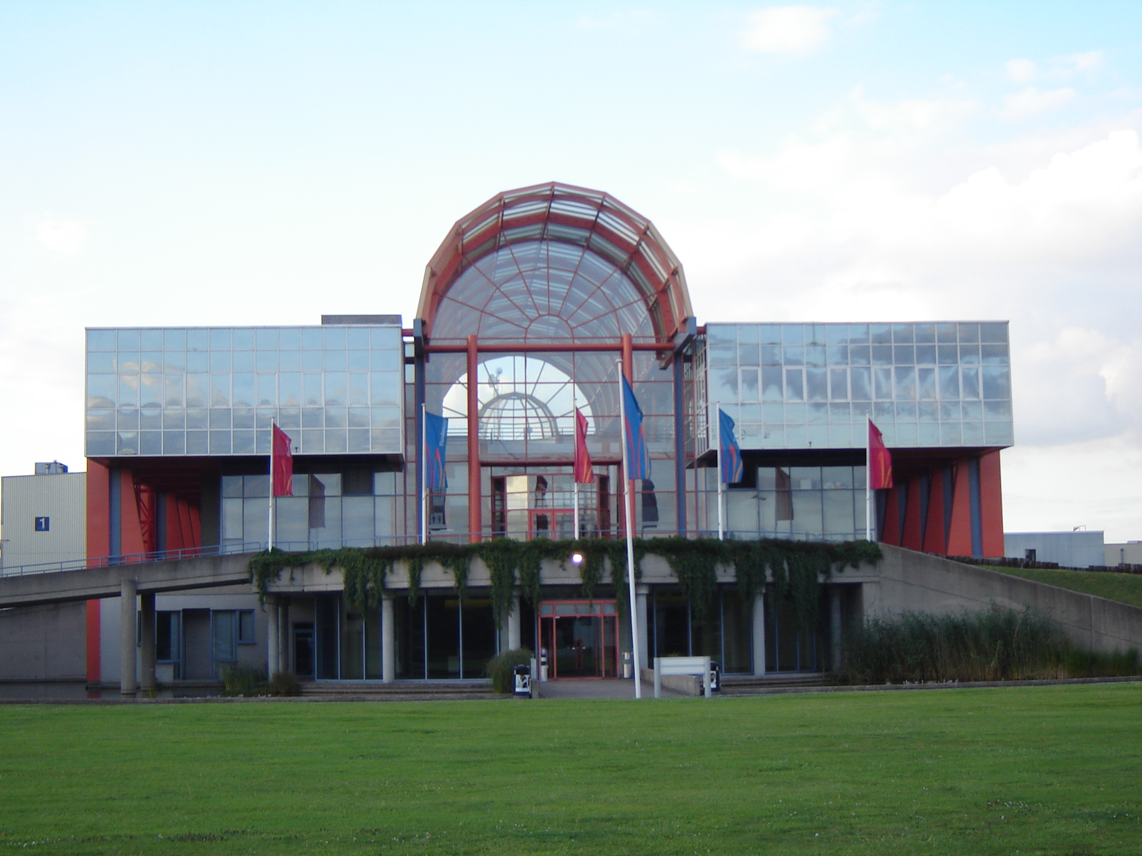 Entrance building of Flanders Expo. Gent, East Flanders, Belgium